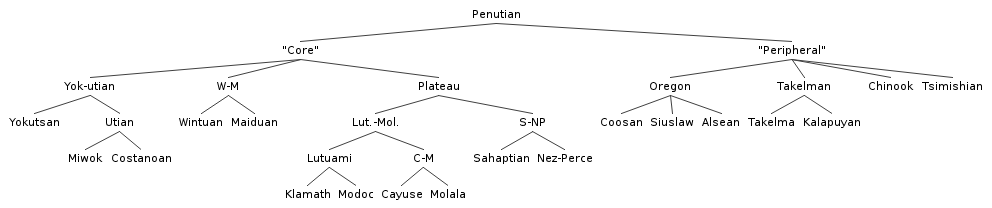 Possible relationship among penutian languages, based on: Scott DeLancey and Victor Golla (1997): "The Penutian Hypothesis: Retrospect and Prospect", International Journal of American Linguistics, Vol. 63, No. 1 (Jan., 1997), pp. 171-202.